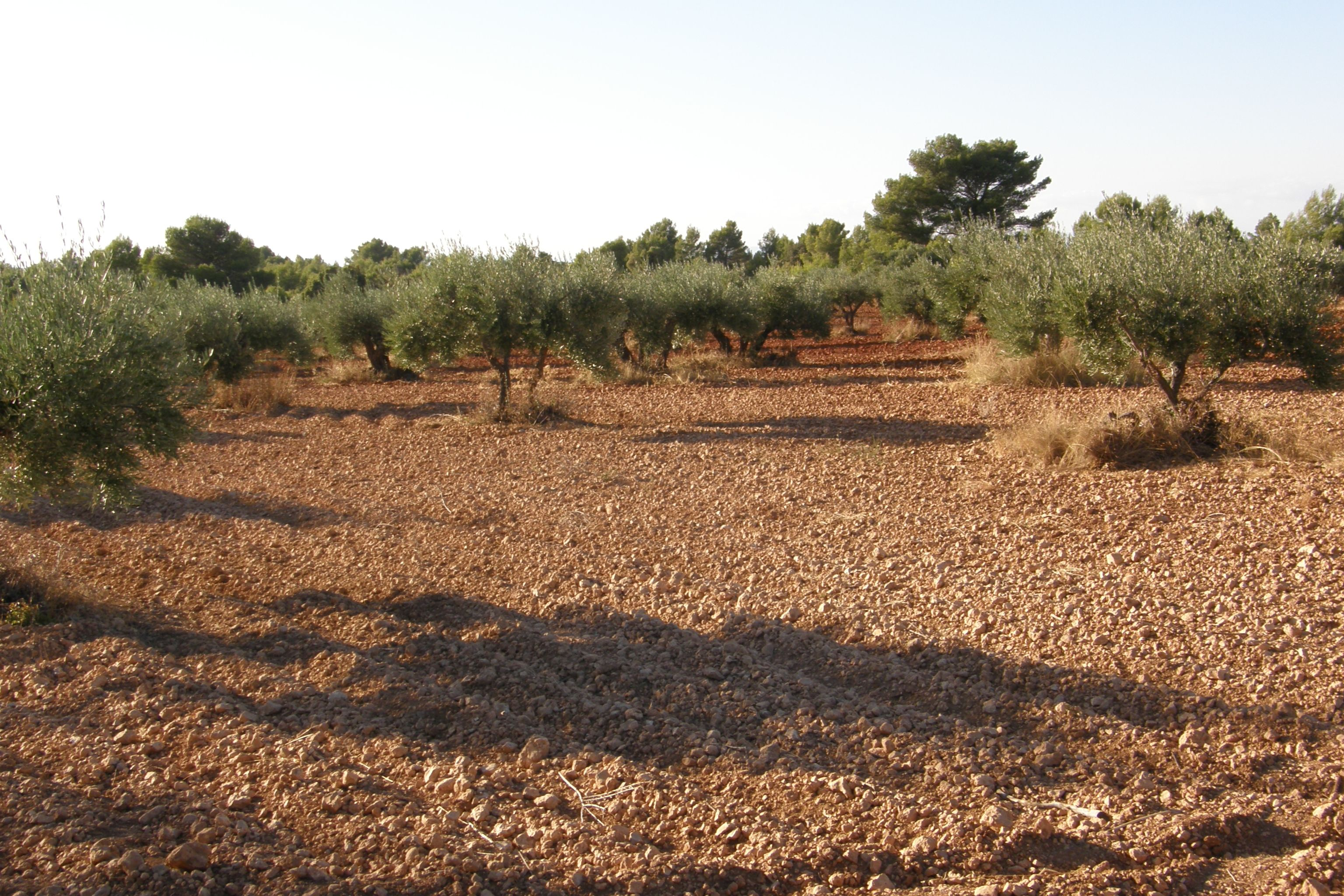 Olea europaea orchard in Valfermoso de Tajuña, Guadalajara, Spain.